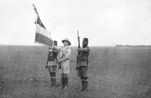 Force Publique soldiers display Belgian flag in a captured town of German East Africa during World War I